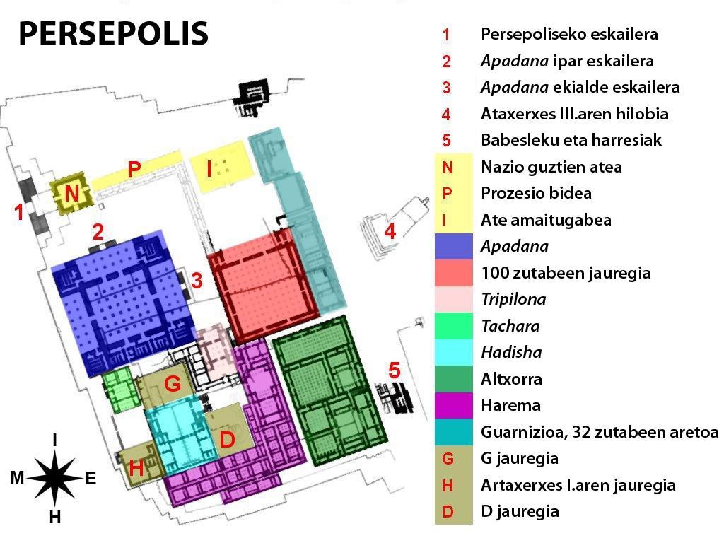 Map of Persepolis royal palaces complex, translated into Basque.